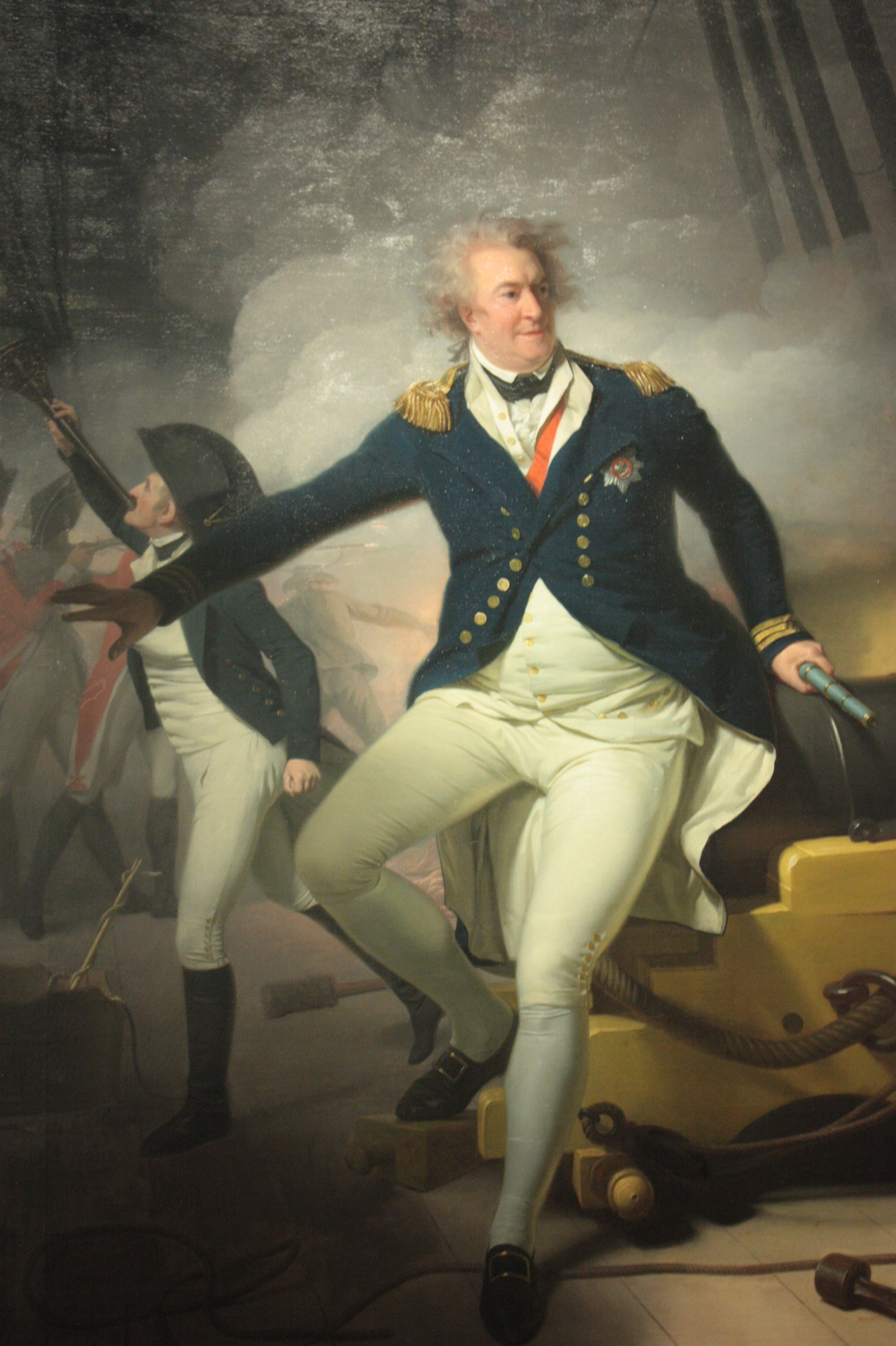 Admiral Adam Duncan by Henri-Pierre Danloux 1798